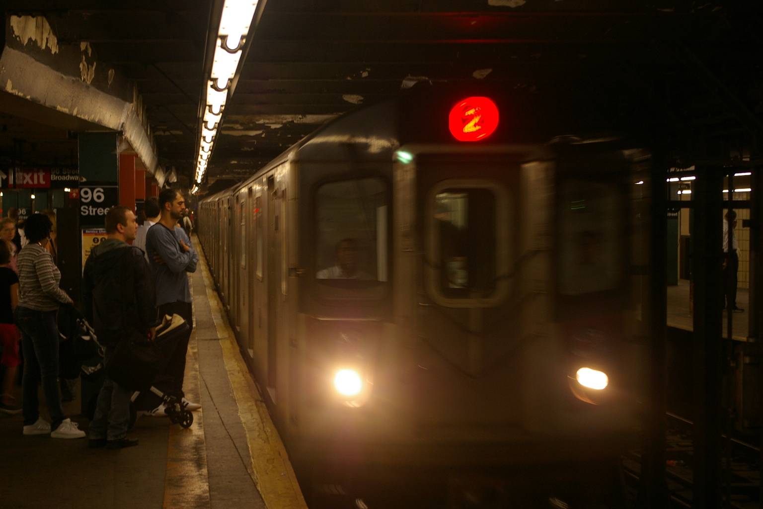 Number 2 Train on the 96th Street Platform